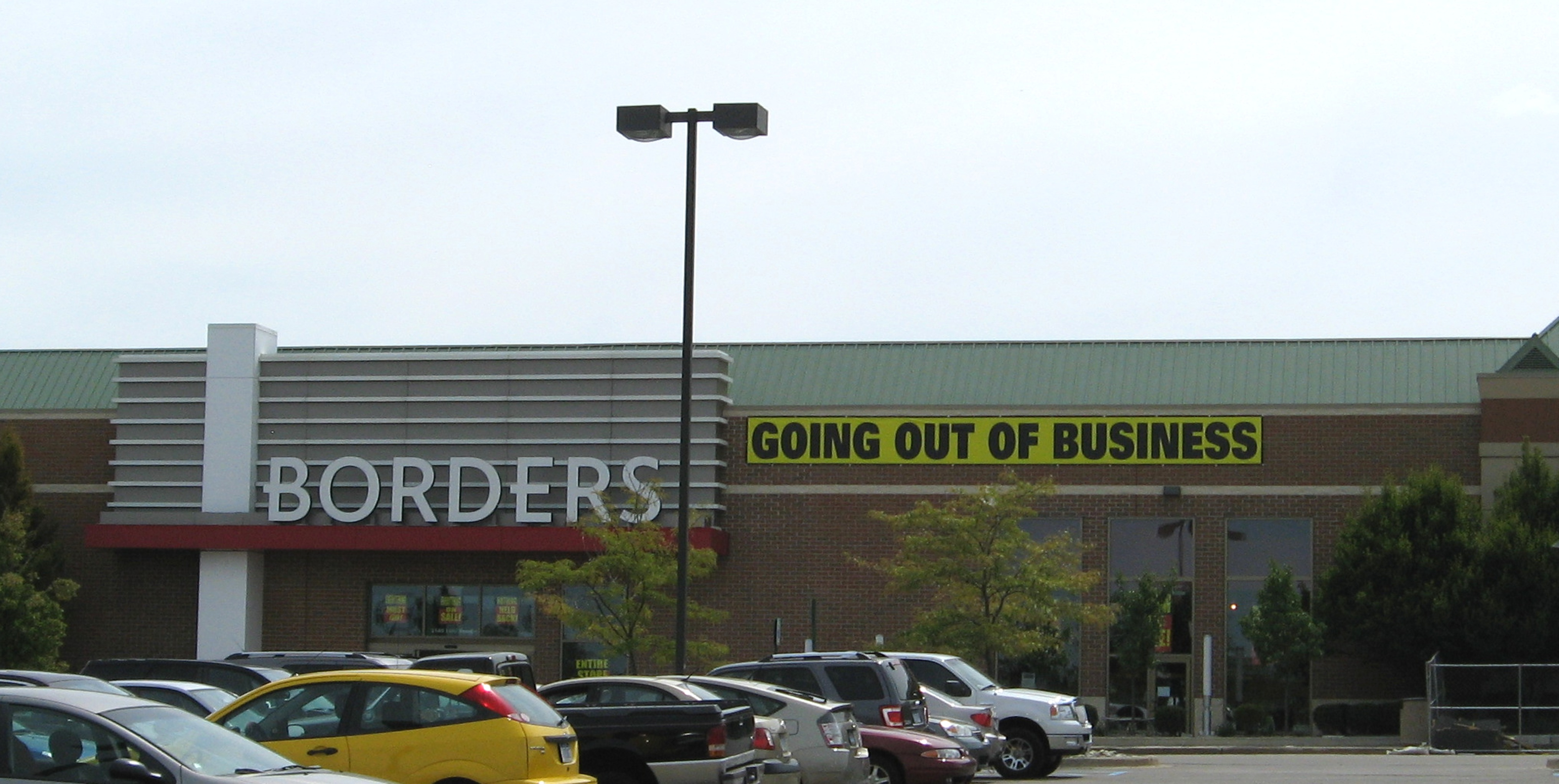 Borders store closing, 3140 Lohr Road, Pittsfield Township, Michigan